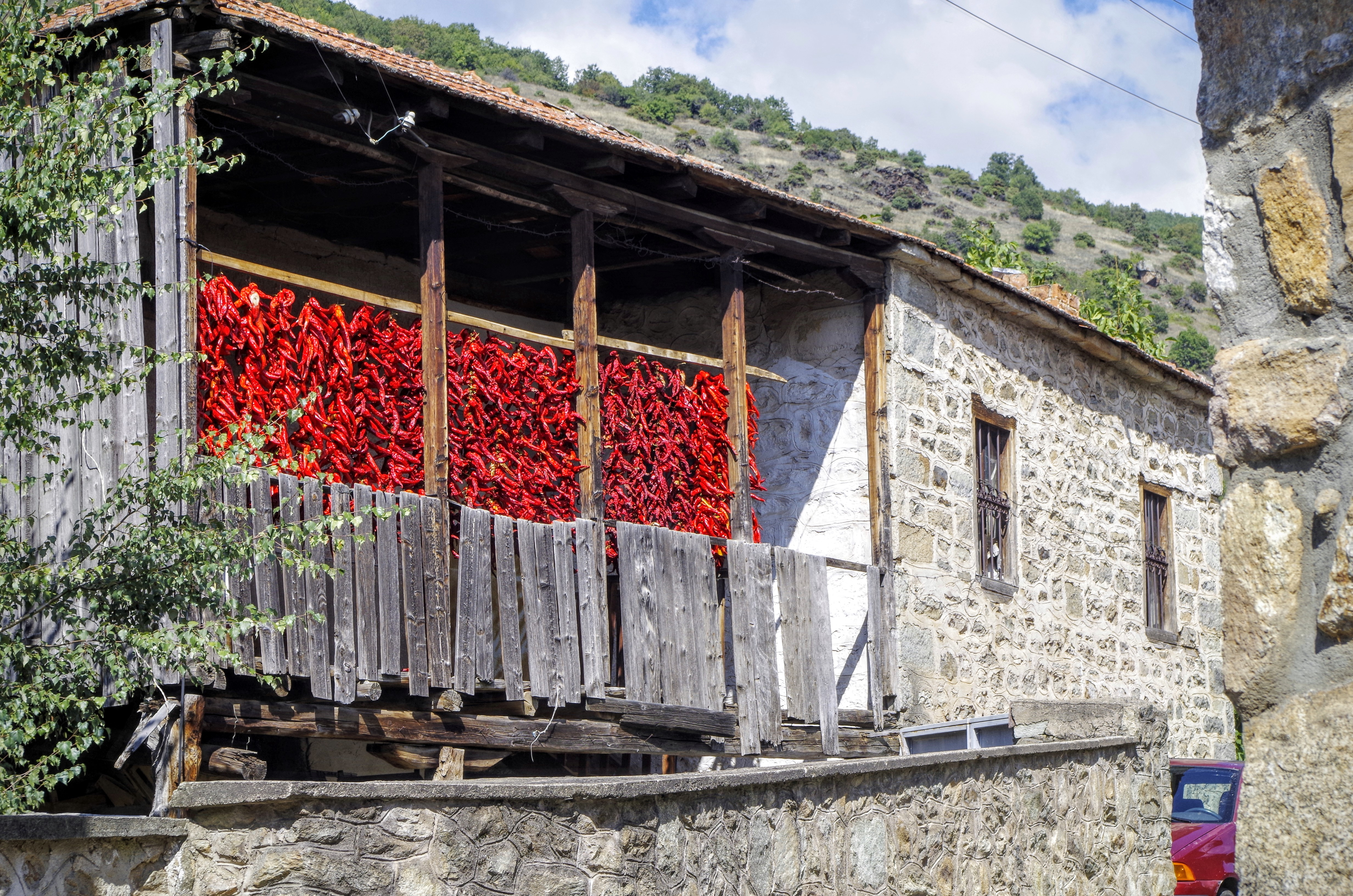 View of the old houses in the village Brajčino